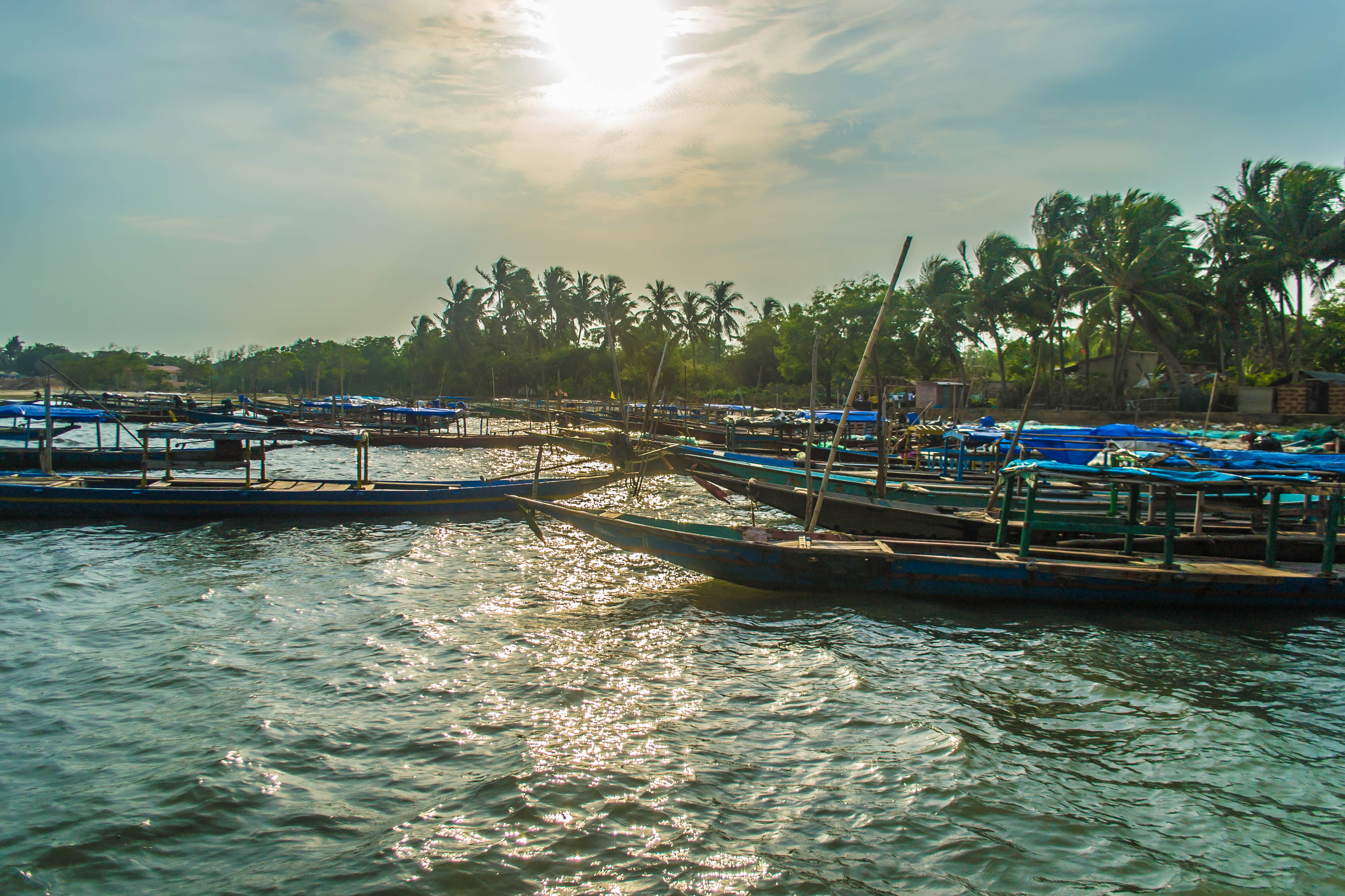 boats anchored at a harbor in Chilka Lake, Odisha.